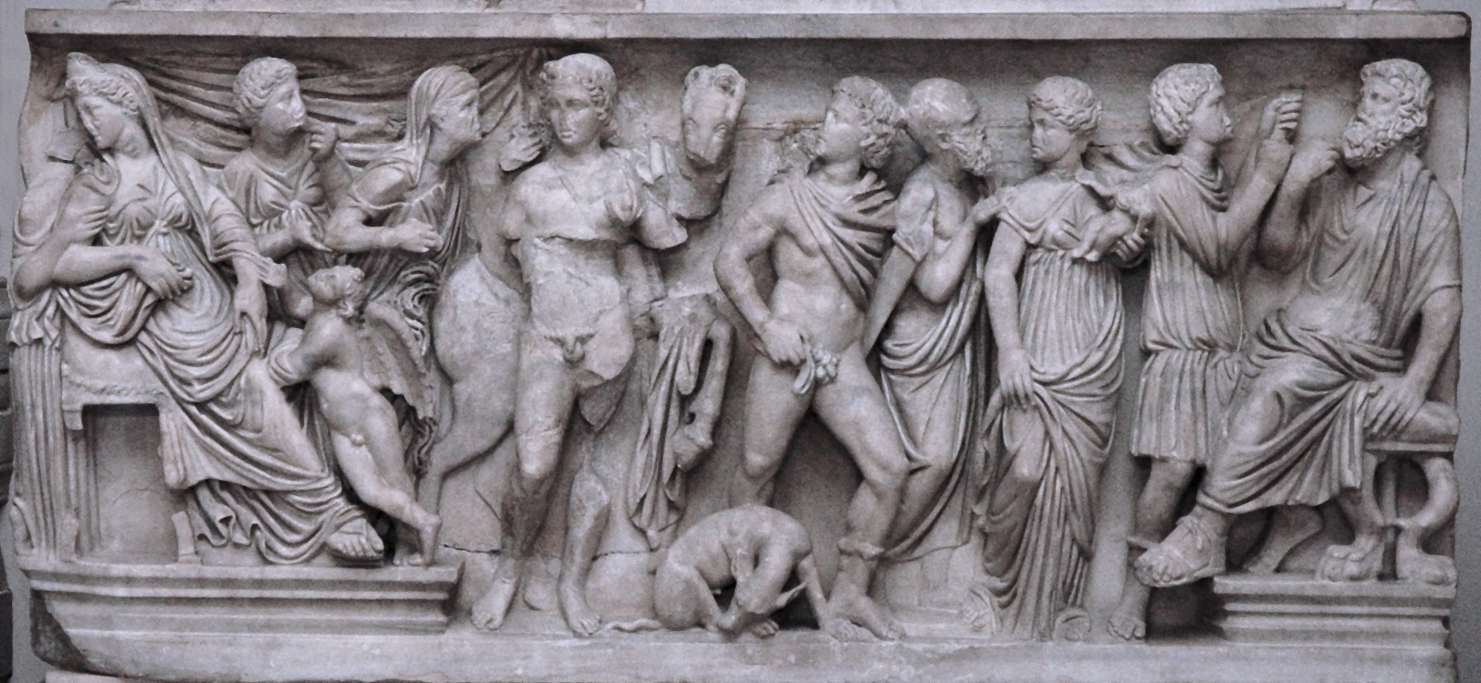 Hippolytus and Phaedra. Front of a marble sarcophagus, ca. 290 AD. Found in 1853 on the Chiarone river banks (Tuscany, Italy), on the former Emilia-Aurelia road.